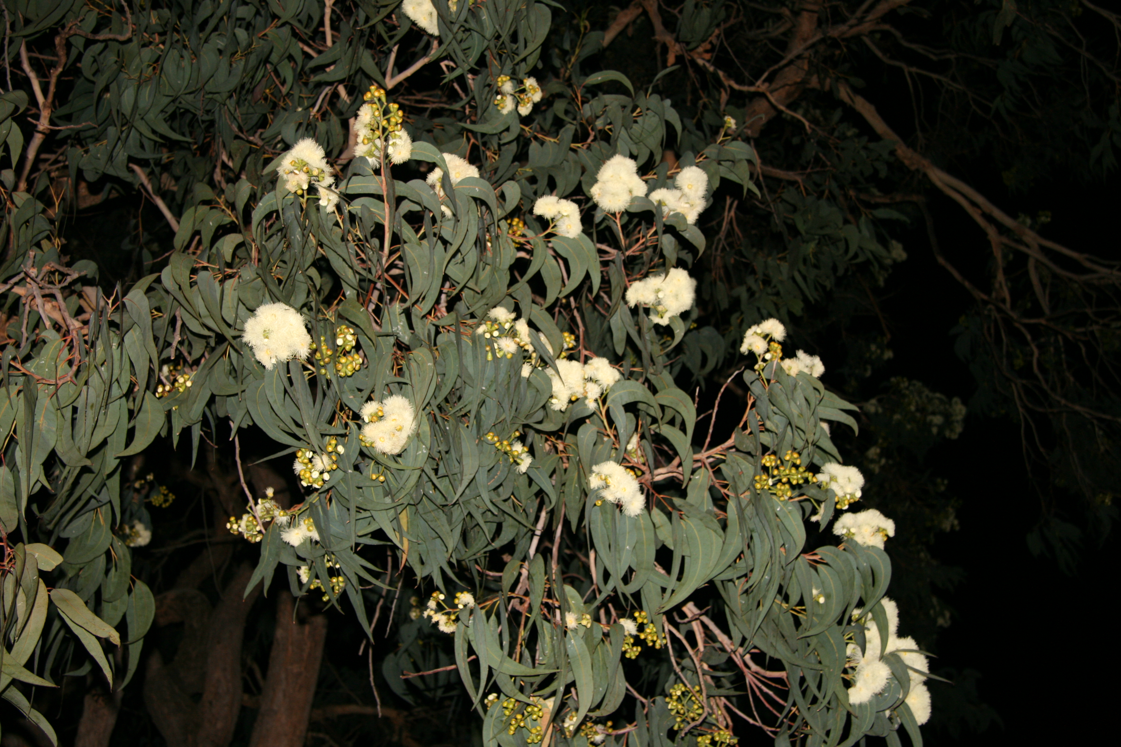 Corymbia eximia cultivated as street tree in Wellington St Rozelle, in late bud as flowerheads begin to open